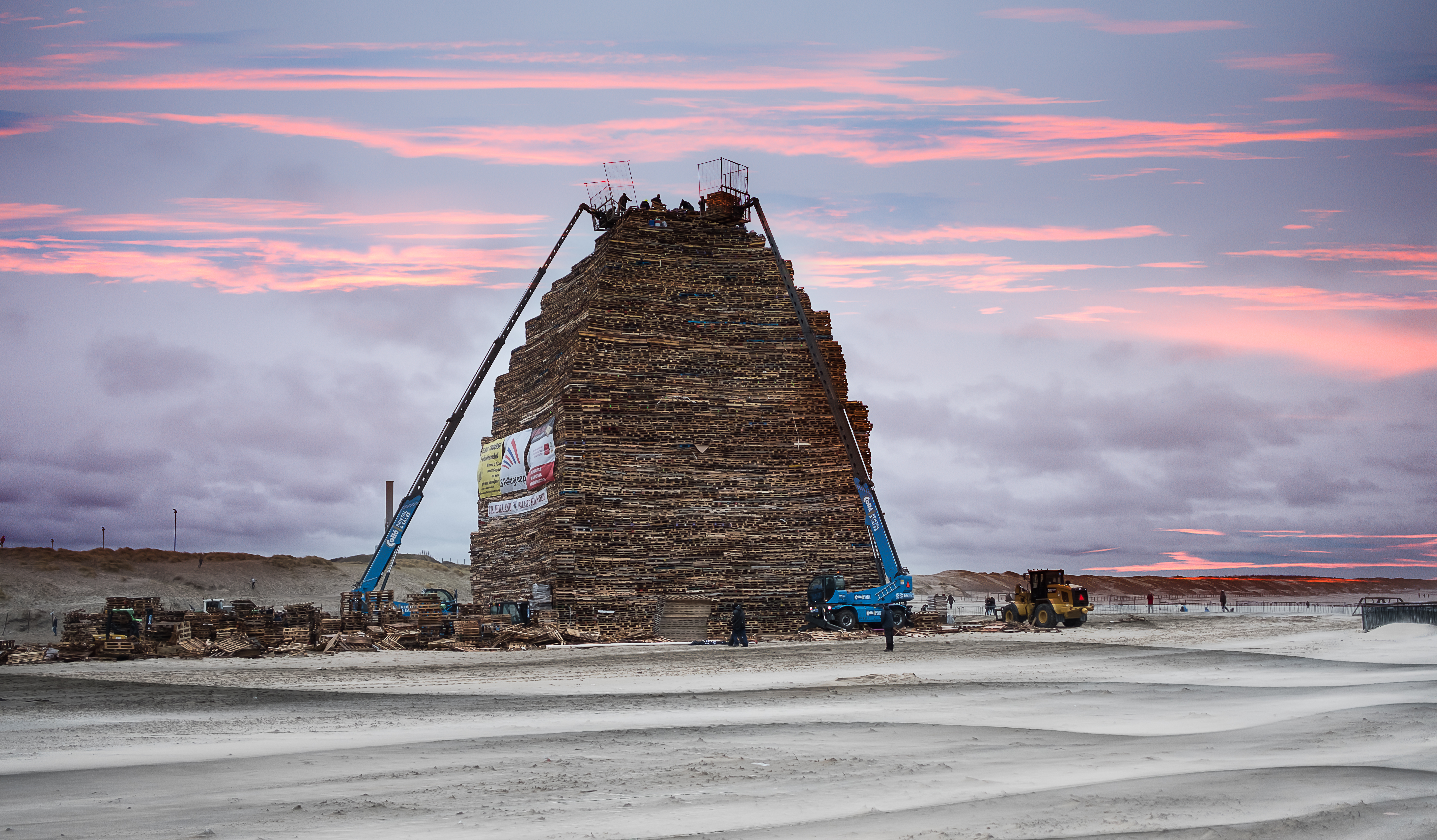 Duindorp Bonfire at Zuiderstrand. Scheveningen is also building a bonfire at the Noorderstrand. Both bonfires are "limited" in height to 35 mtrs. It still remains an impressive building.